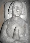 Louis of Evreux